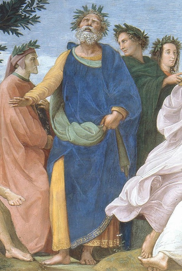 This image is a cropped version of Raphael's Parnassus, showing the figure of Homer.